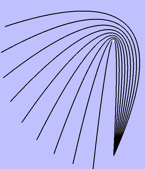 Demonstrate how a slightly different heading can have great consequences when dealing with orbital mechanics.